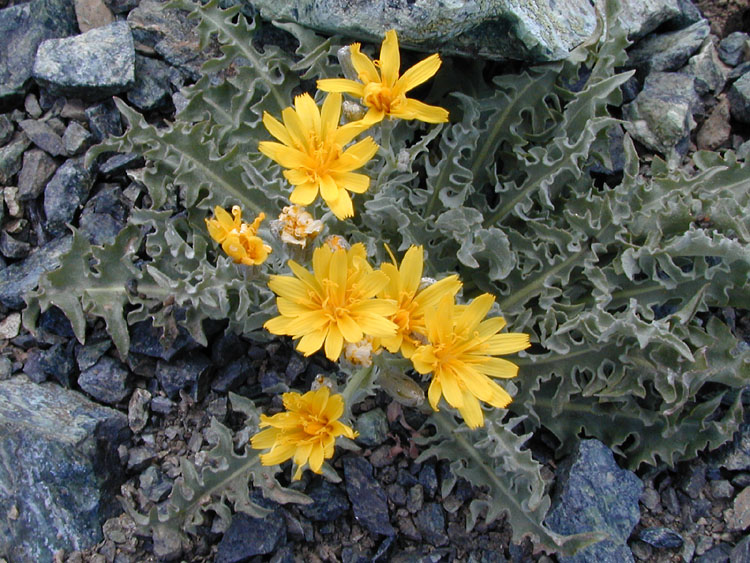 Crepis occidentalis at Mt. Eddy (Siskiyou County, California, US)